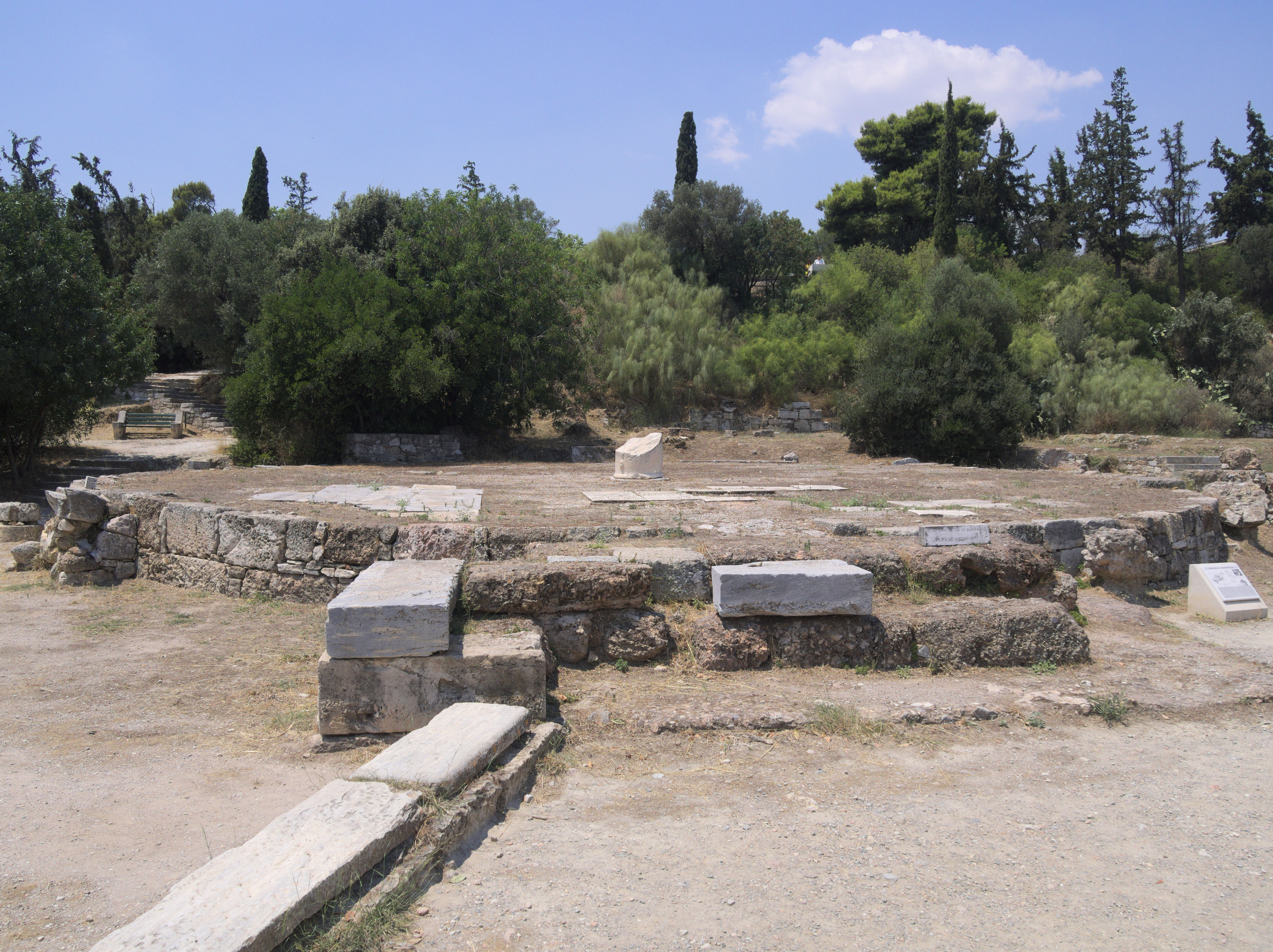 The Tholos of the Ancient Agora of Athens, a round structure that was the headquarters of the 50 prytaneis.